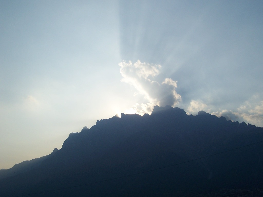 Dusk. Mount Concarena, Val Camonica